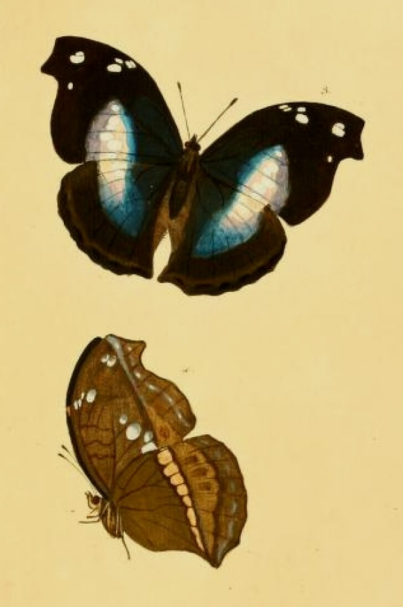 Illustration of neotropical butterfly Napeocles jucunda female (Hübner, [1808]) (image of male).